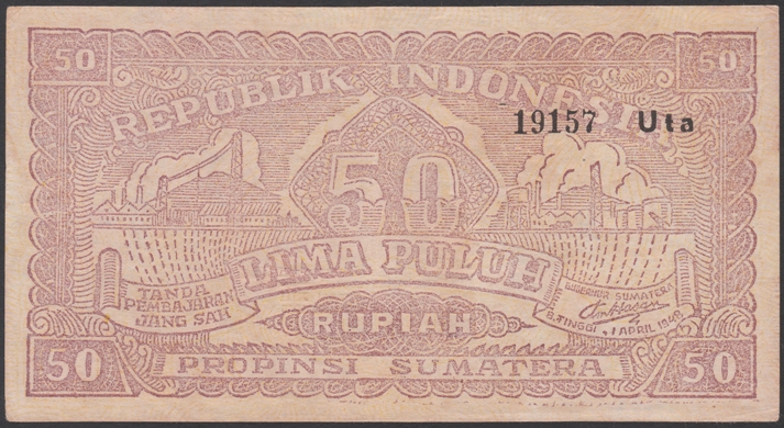 Uang Republik Indonesia Propinsi Sumatera edisi Bukit Tinggi 1948